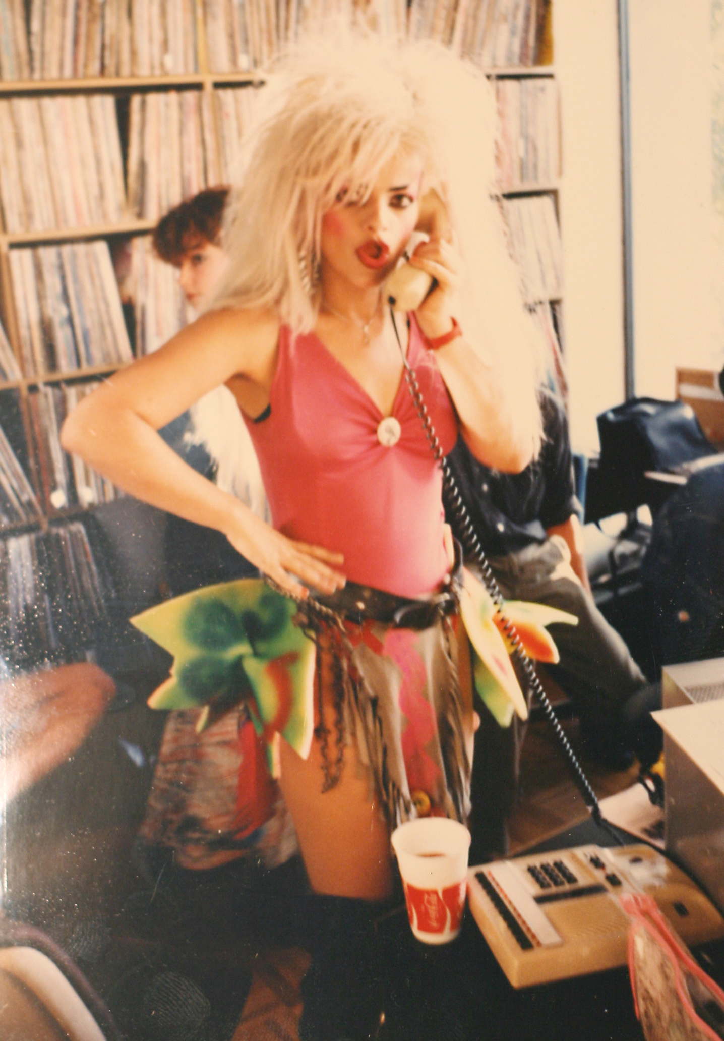 Nina Hagen at KUCI, circa 1986. Interviewed while she promoted PETA. That outfit kicked ass.